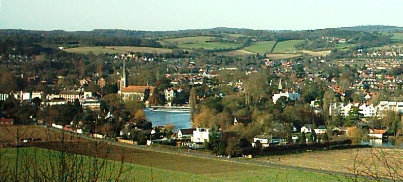 Taken by Rob Neild on 17 Dec, 2005.